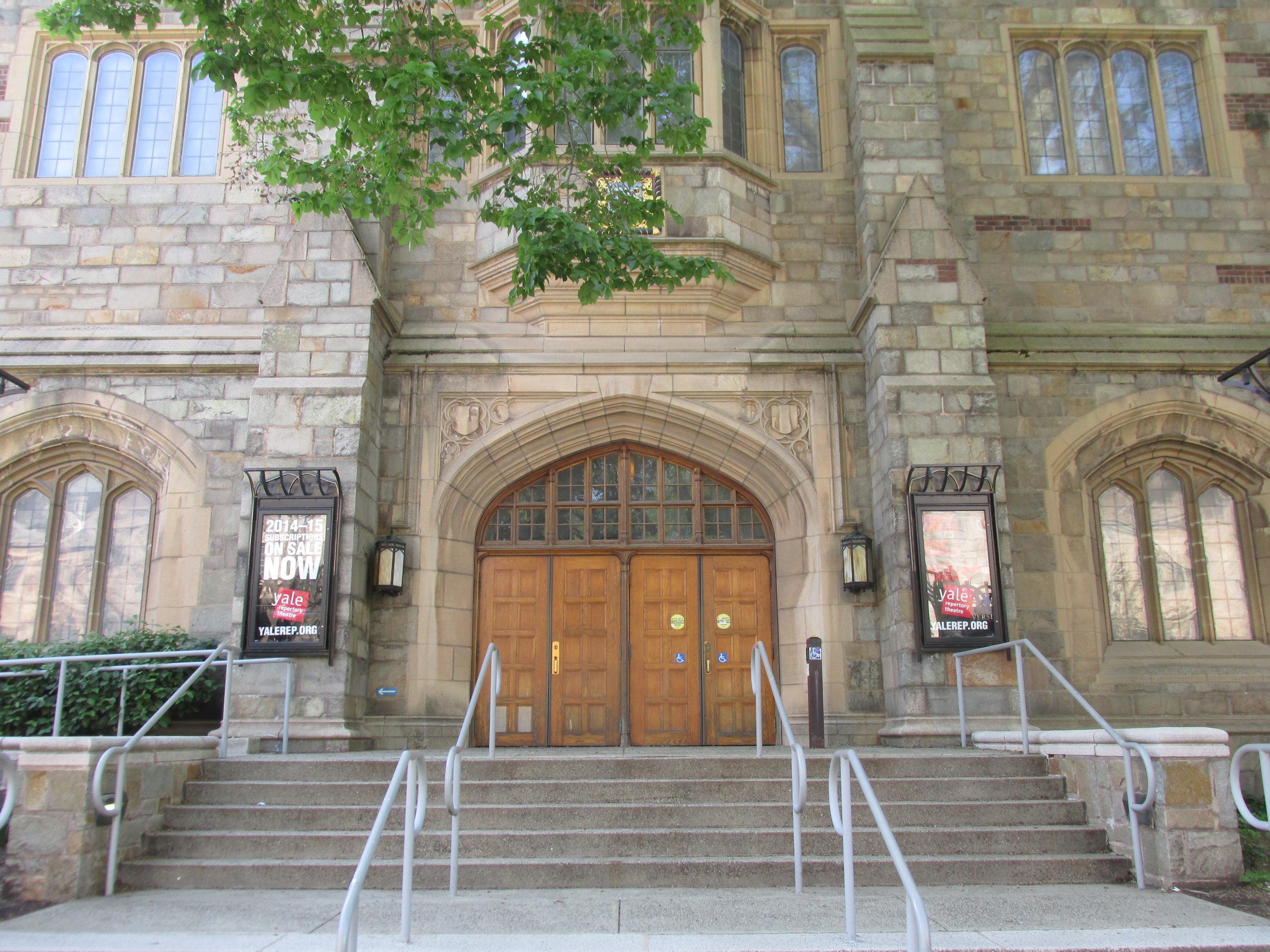 University Theatre, Yale School of Drama, New Haven Connecticut